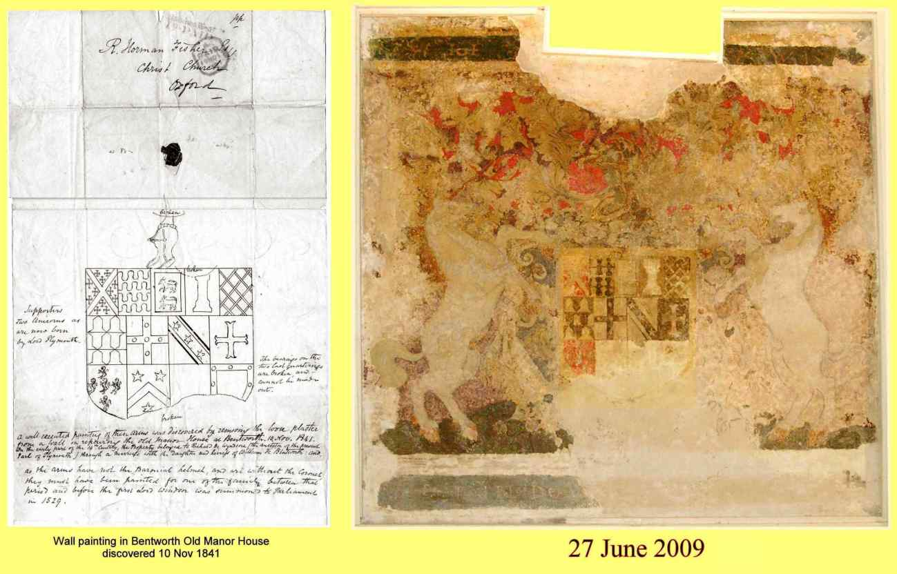 Hall Place, Bentworth, wall painting and diagram of crest